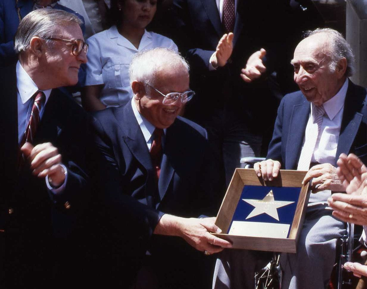 Joe Pasternak receiving his star on the Hollywood Walk of Fame. Los Angeles California